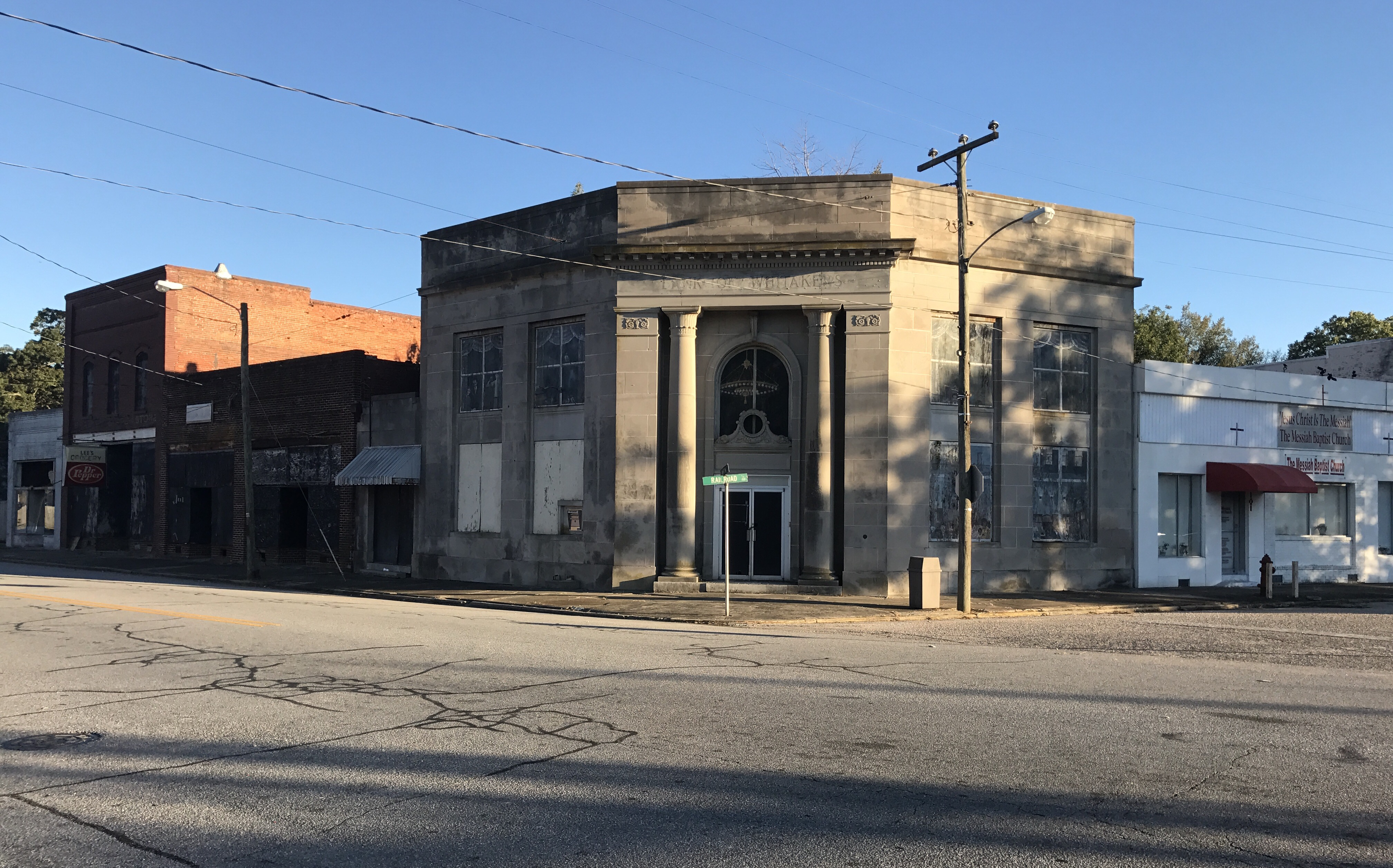 Whitakers, North Carolina. Bank of Whitakers building in the center.